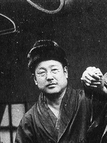 public domain